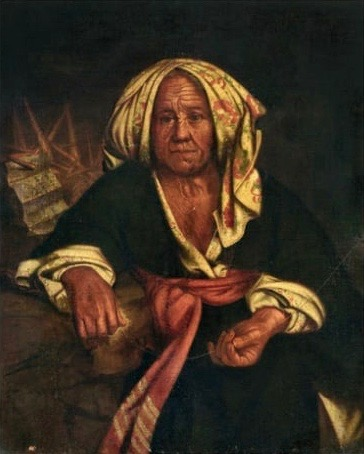 Pietro Bellotti (Volciano di Salò, 1625 – Gargnano, 1700), The Parcae Lachesis (La Parca Lachesi). Oil on canvas. 92.5 X 74 cm.